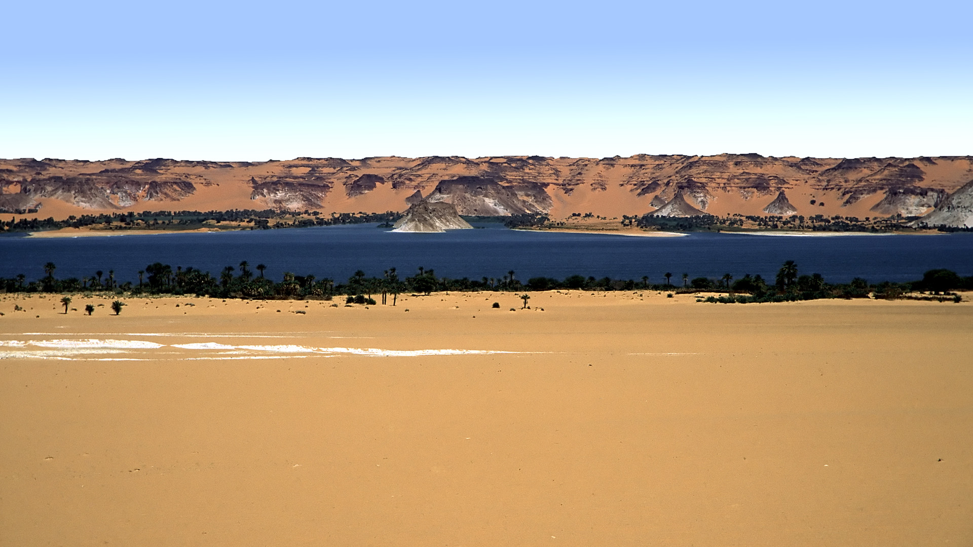 Ounianga Serir lake, Chad